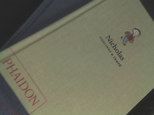 Afghanistan - Zalmai)&t=h King's English, Salt Lake City, Utah, USA [?]